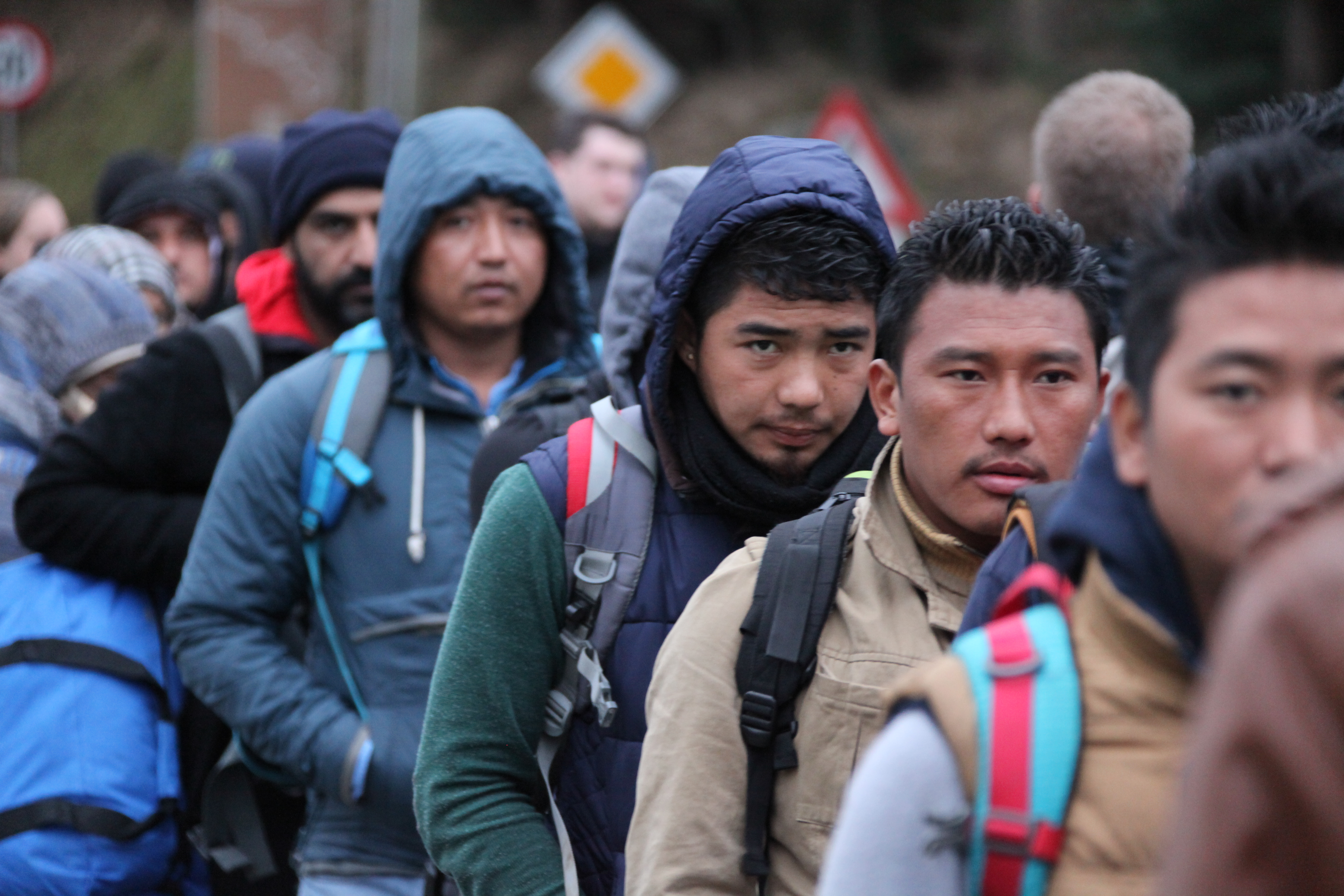 Grenzübergang Oberösterreich / Deutschland Immigrantenabfertigung 17.11.2015 - WEGSCHEID-HANGING Personality rights warning Although this work is freely licensed or in the public domain, the person(s) shown may have rights that legally restrict certain re-uses unless those depicted consent to such uses. In these cases, a model release or other evidence of consent could protect you from infringement claims.